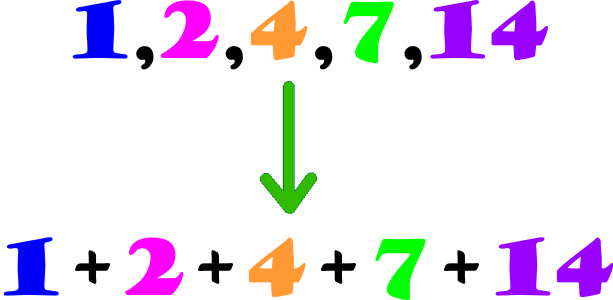 28 is a perfect number.